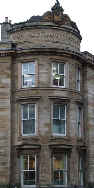 "The Cleland Testimonial".. At the corner of Buchanan Street and Sauchiehall Street. Erected in memory of Dr James Cleland who was, amongst other things, Glasgow's Superintendent of Public Works from 1814-1834. It is the building on the left of this picture 345880.